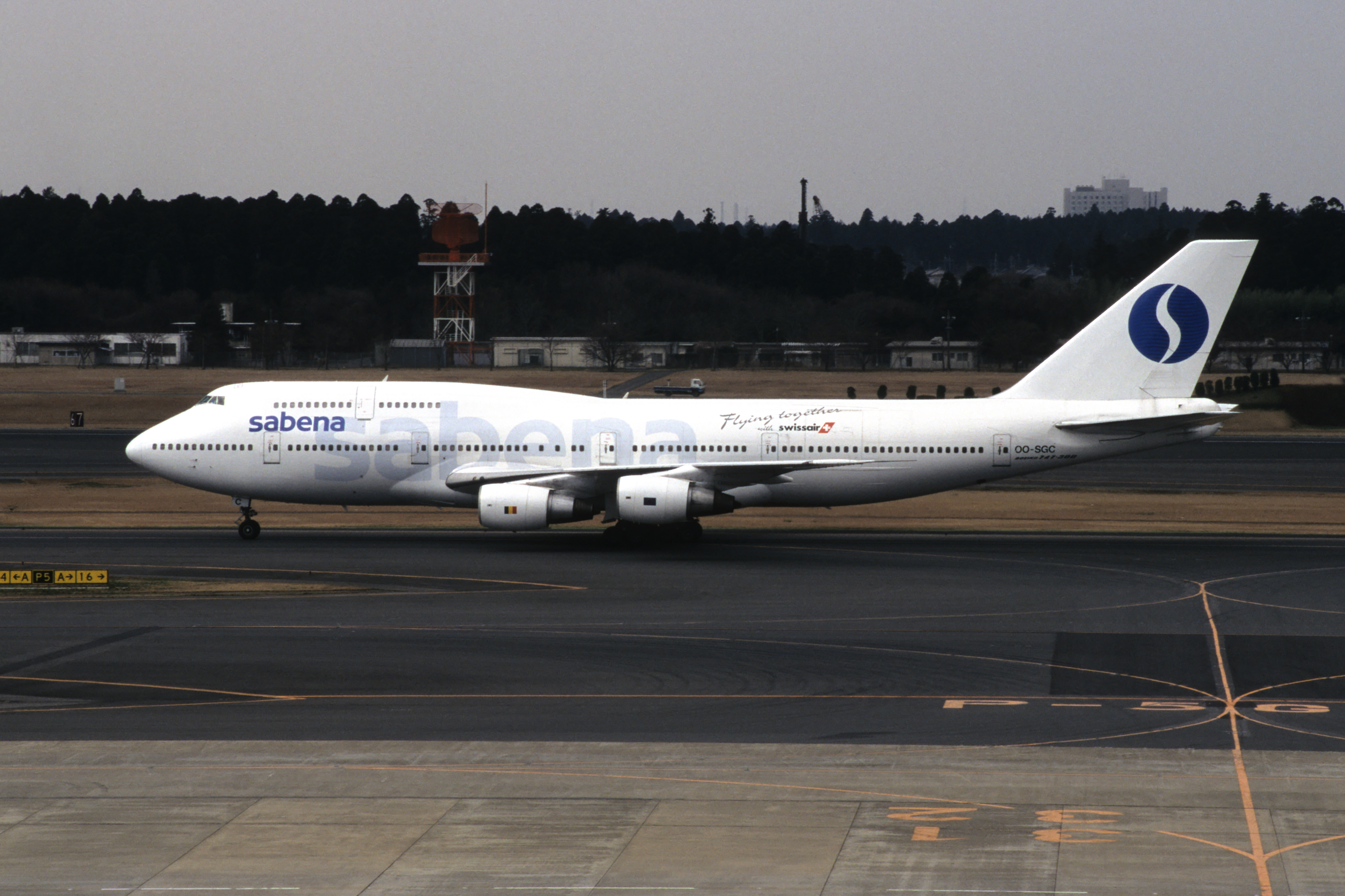 Early 1990's...